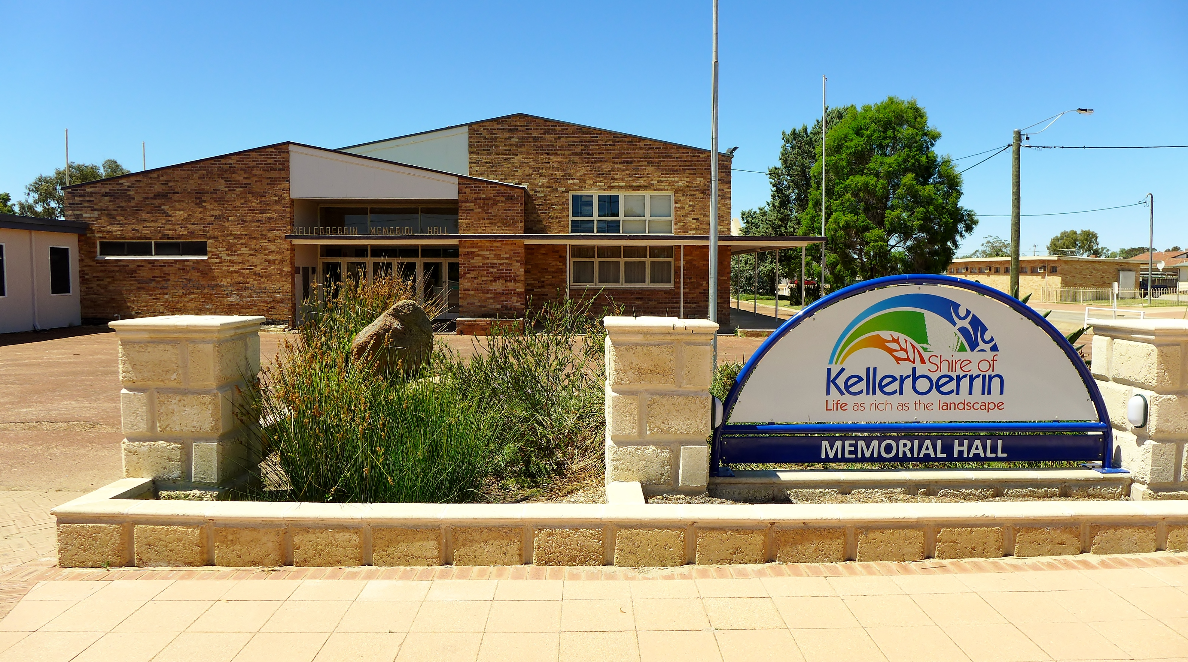 View of Kellerberrin Memorial Hall, Massingham Street, Kellerberrin, Western Australia.